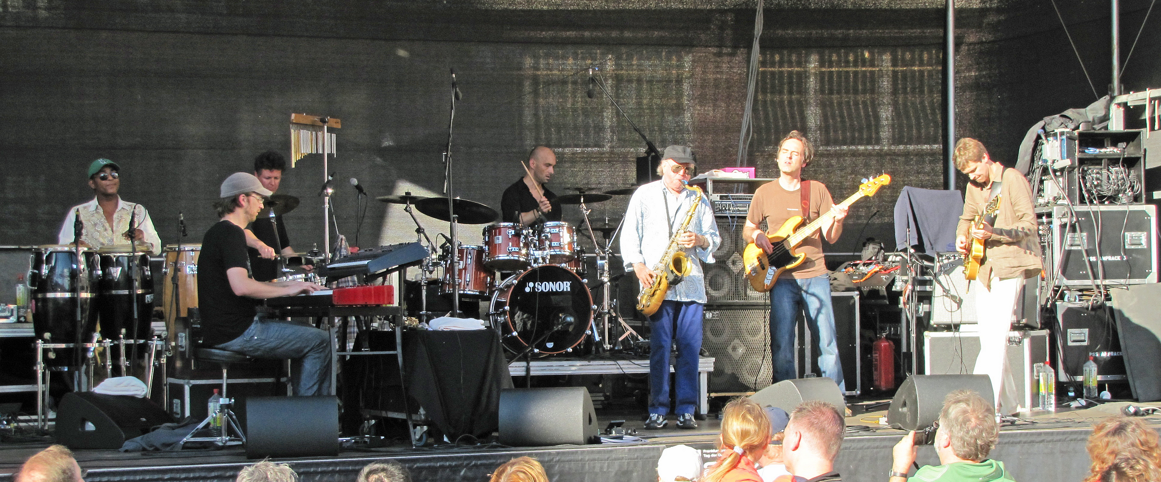 Doldingers "Passport", at "Jazz zum Dritten", 2010 in Frankfurt am Main, Germany.